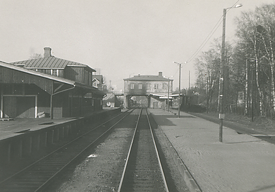 Malmi railway station in Helsinki, Finland. Photograph taken in 1965.